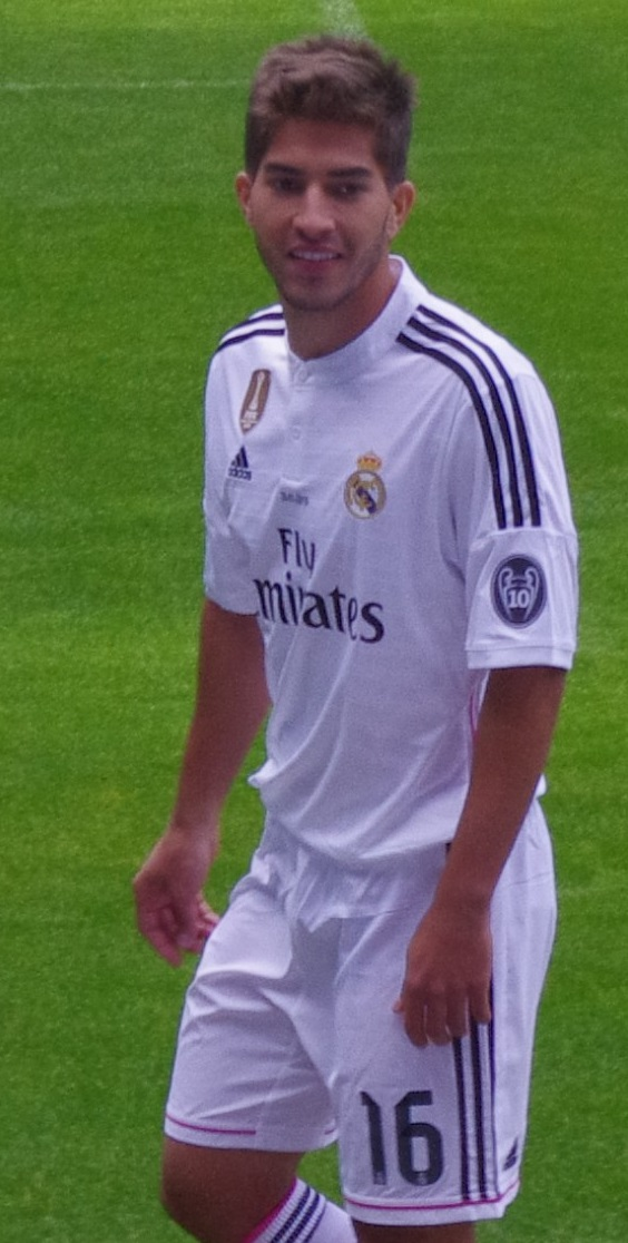 Lucas Silva presented to the crowd at the Santiago Bernabeu after his transfer to Real Madrid in January 2015